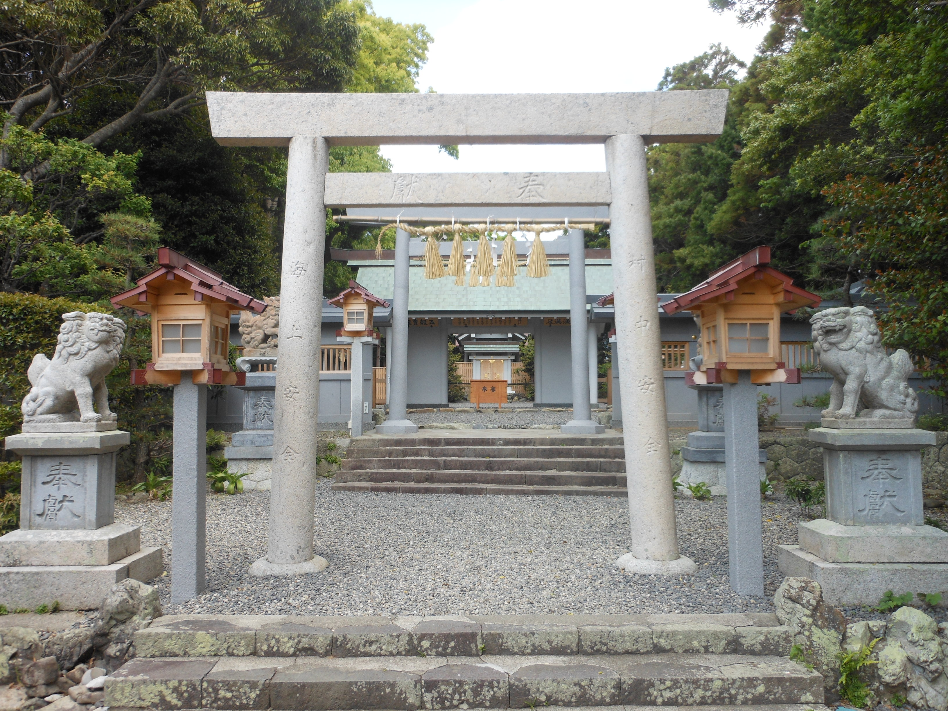 This is the Yakumo shrine, which is in Shimacho-Wagu, Shima, Mie, Japan.